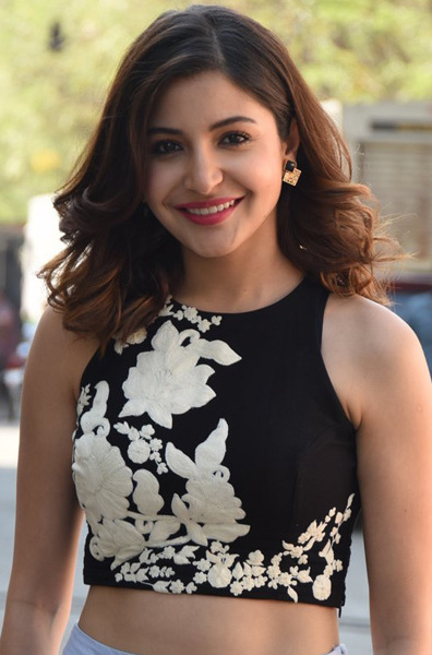 Anushka Sharma at a promotional event for NH10